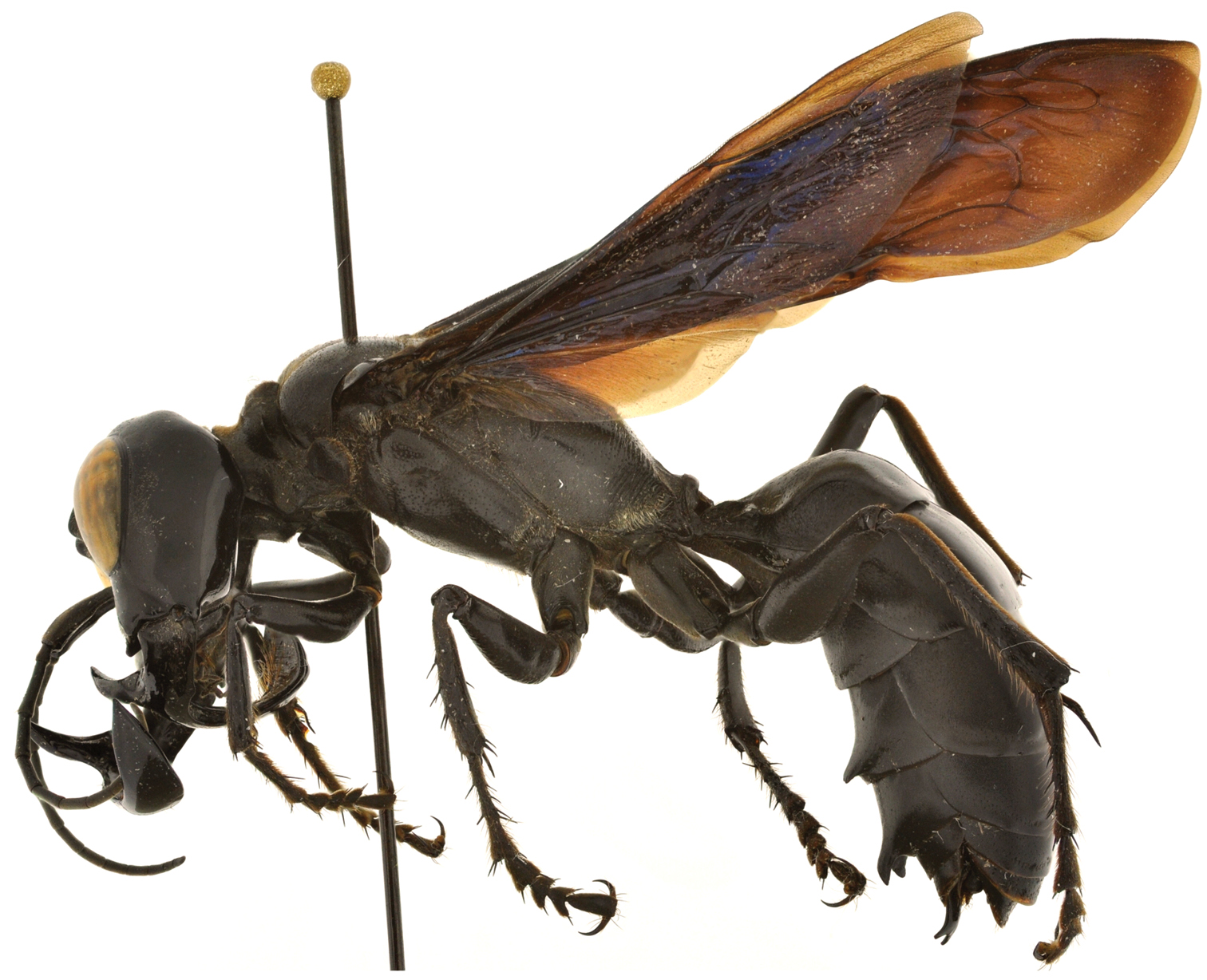 A male wasp Megalara garuda